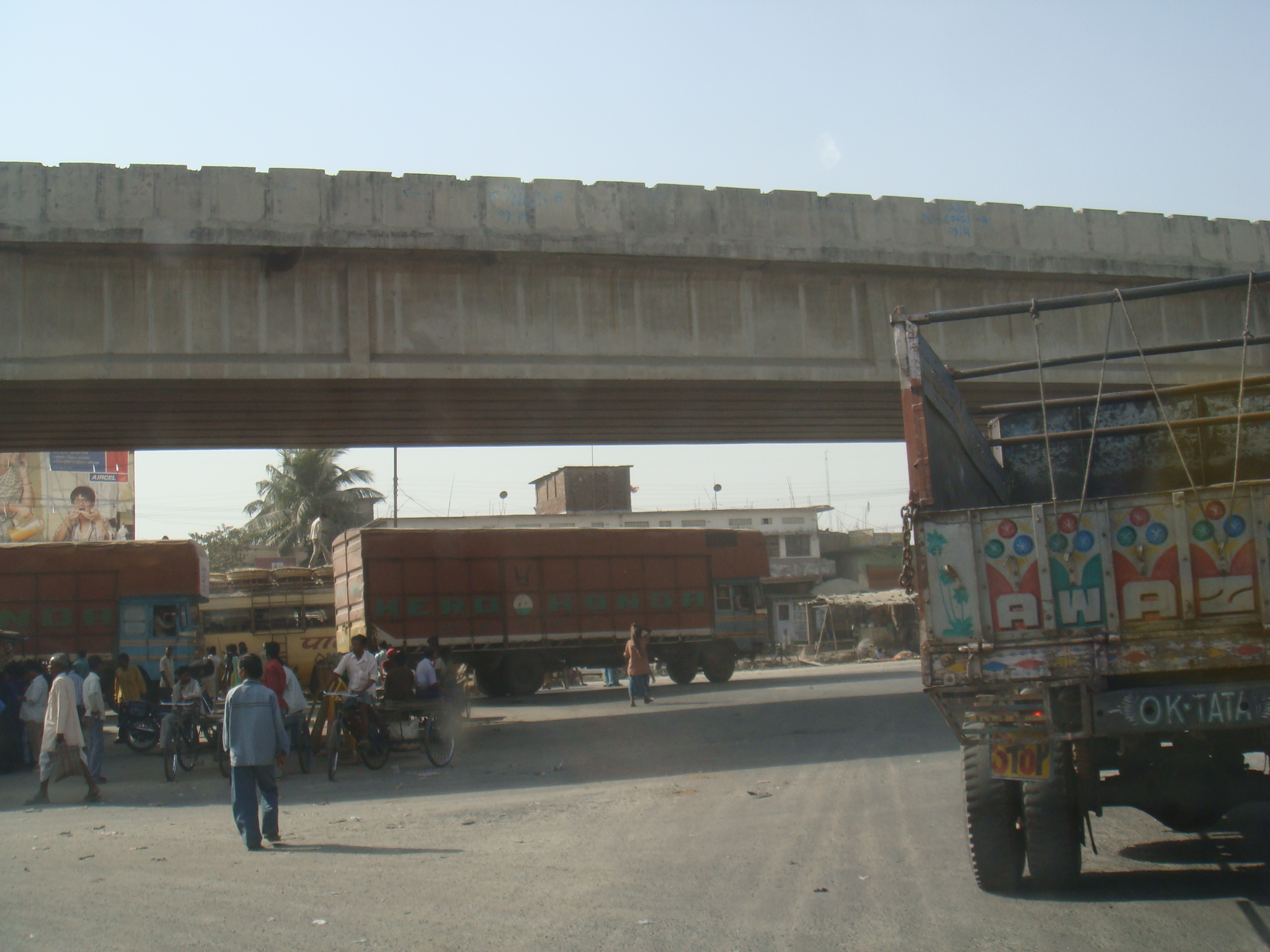 Purnea more junction point of NH 27 (Flyover) and NH 12